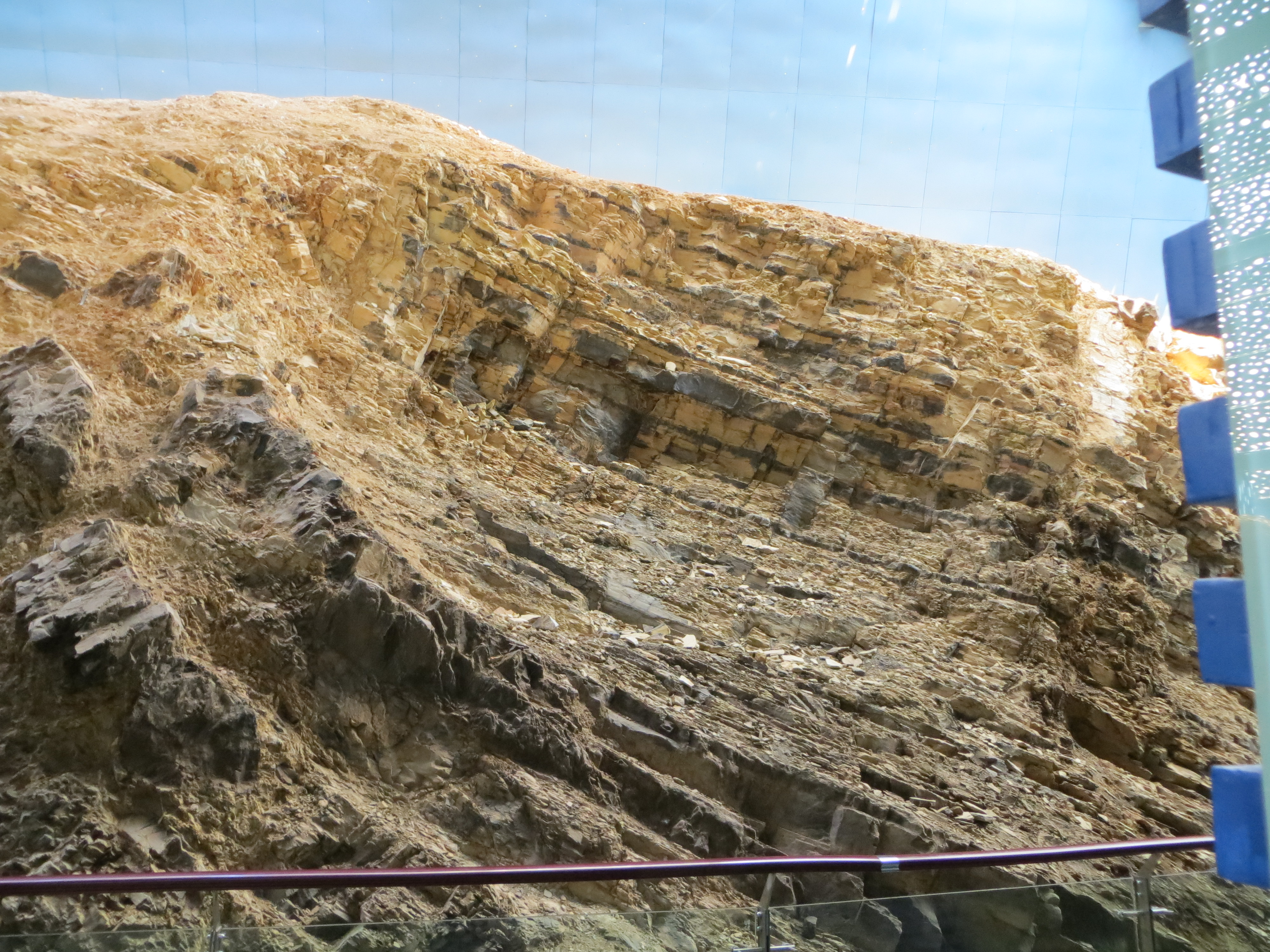 Outcrop of the Maotianshan Shale, site of the discovery of the Chengjiang Biota, now preserved as part of a UNESCO world heritage site